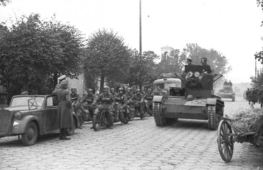 Deutch motorcyclists and officers near Opel Olympia, Soviet T-26 of the 29th Tank Brigade on Unii Lubelskoi street, Brest-nad-Bugom, Sept 1939